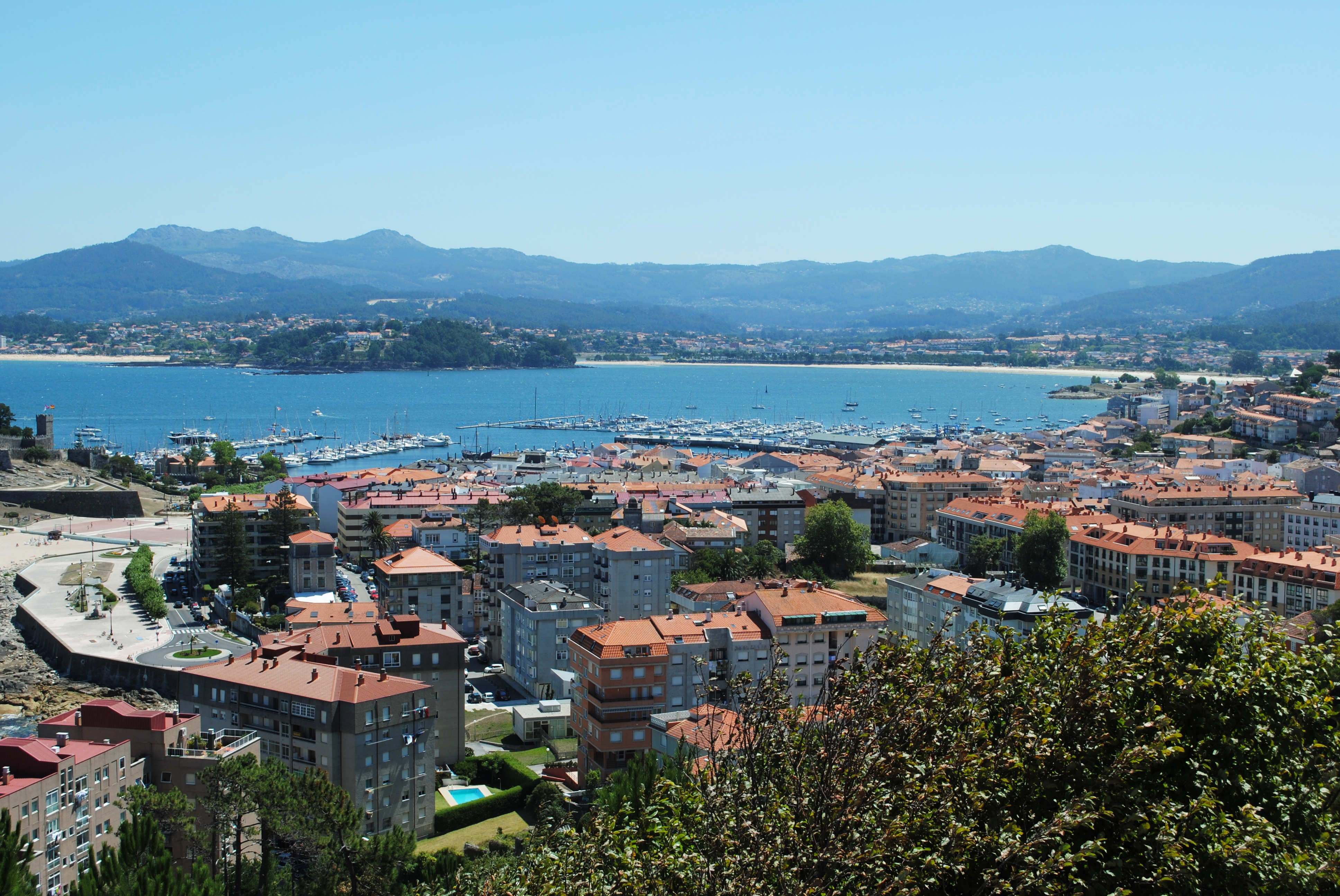 Baiona skyline